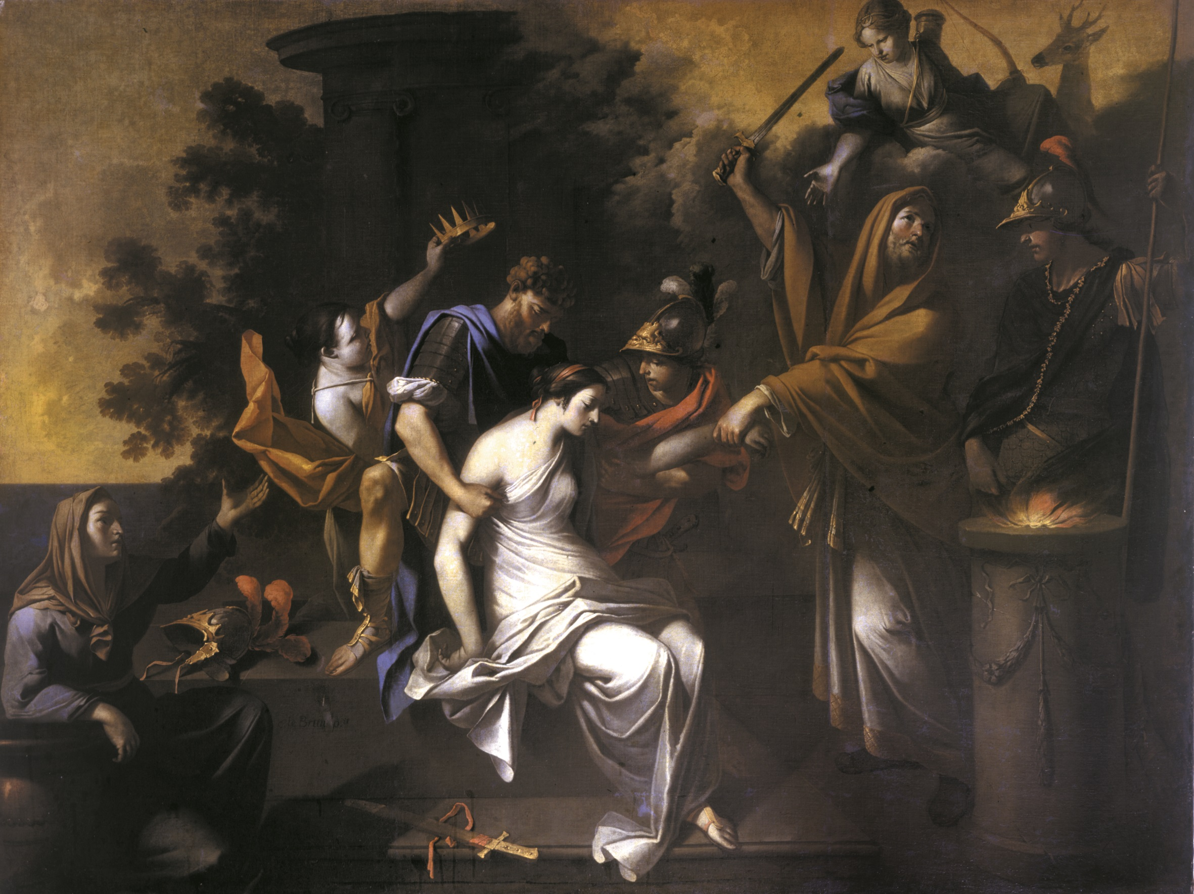 Jean Tassel. The Sacrifice of Iphigenia. c. 1650—1660